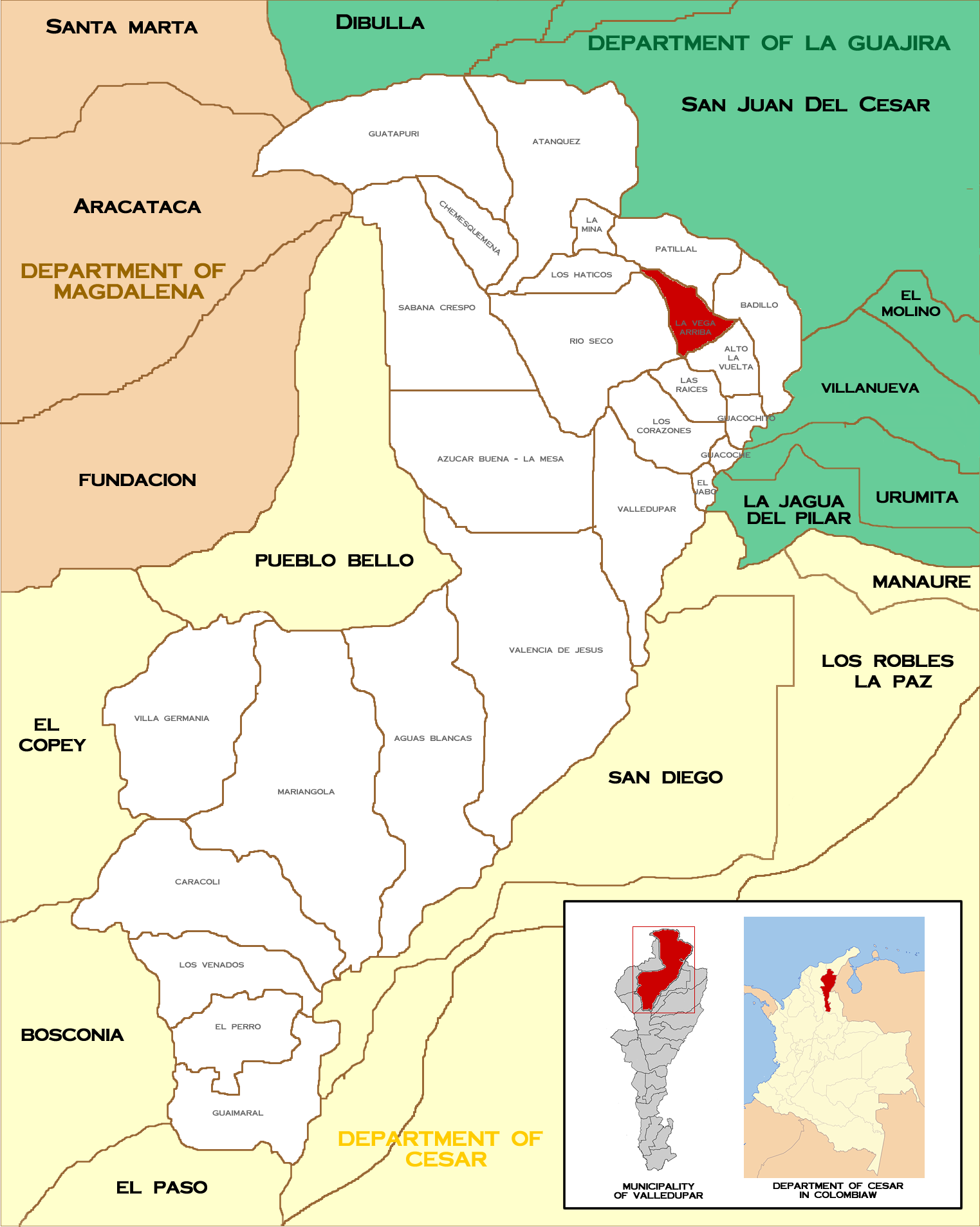 Map of Corregimientos of Valledupar, La Vega Arriba